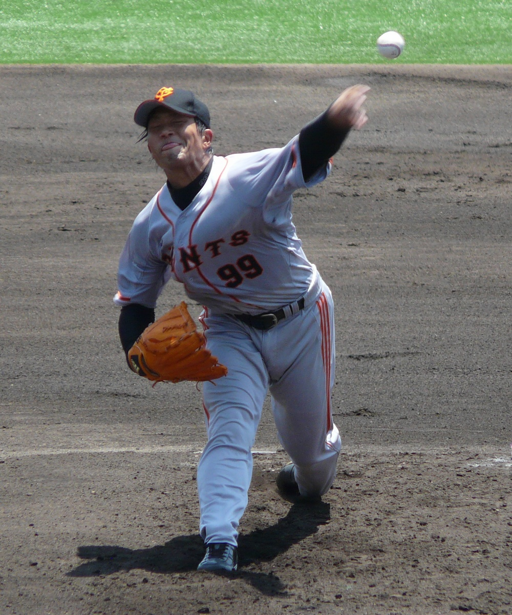 Shugo Fujii, pitcher of the Yomiuri Giants, at Kobe Sports Park Sub Baseball Ground.